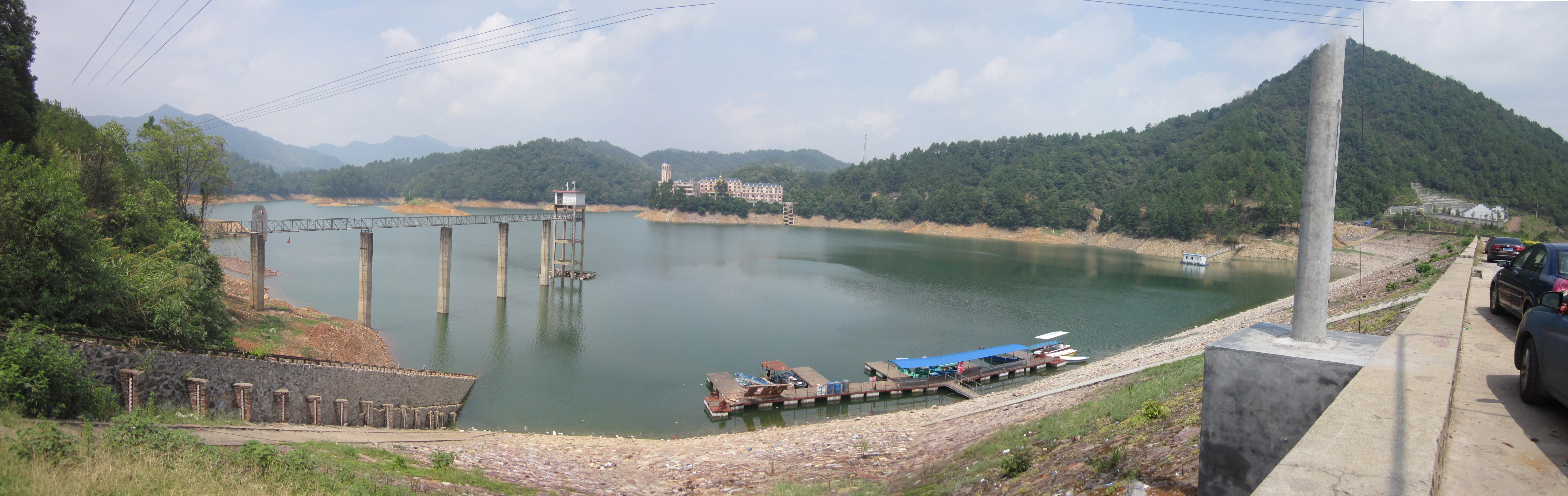 Huangcai Reservoir, is a large reservoir located in the western part of Ningxiang County in the province of Hunan, People's Republic of China.